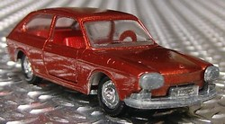 Schuco miniature car of a Volkswagen 411